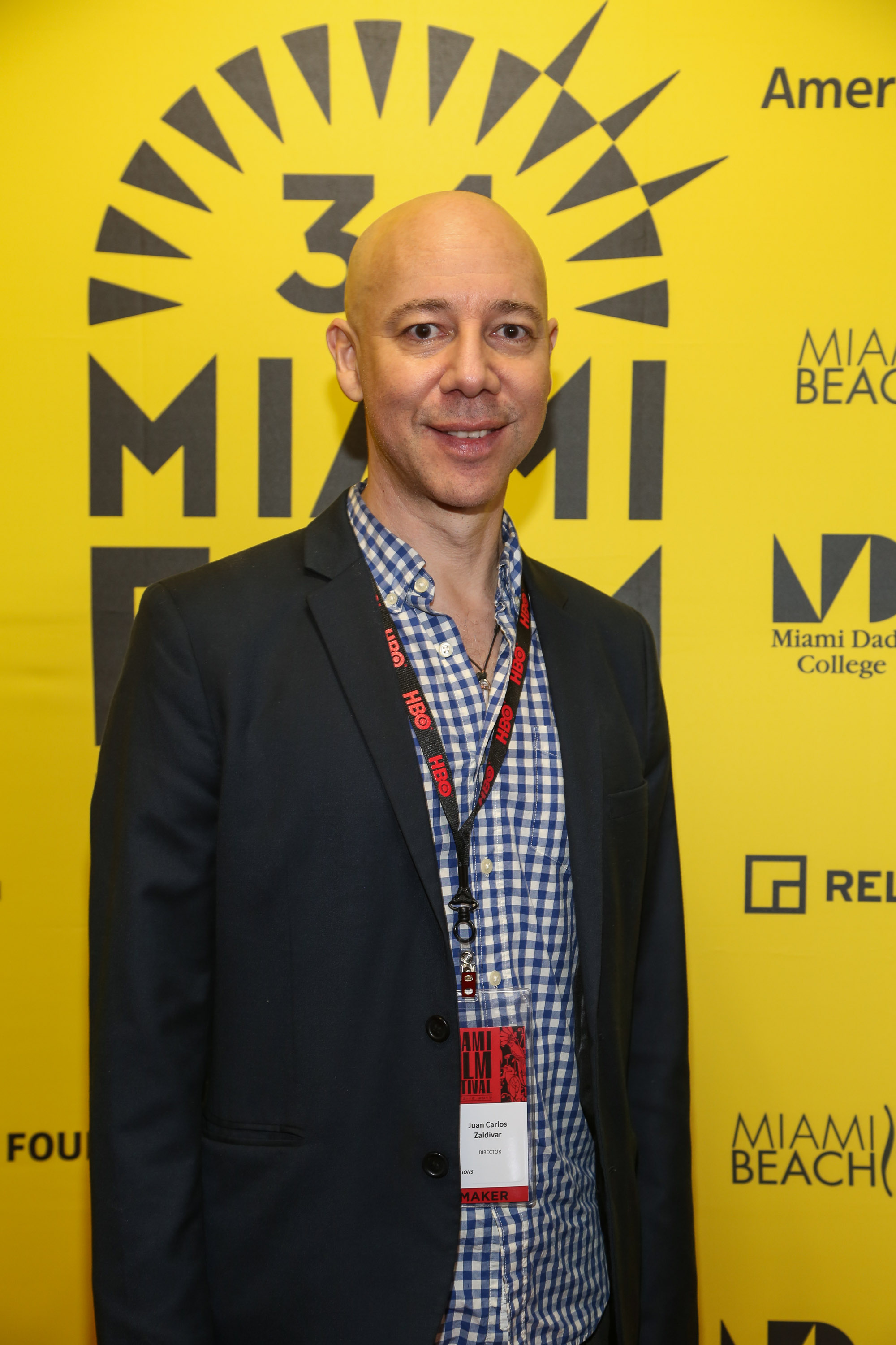 Director Juan Carlos Zaldivar at the 2017 Miami International Film Festival showing of Alterations (Love is the Answer Vol. 1 - Shorts Program) at O Cinema Miami Beach, March 4, 2017